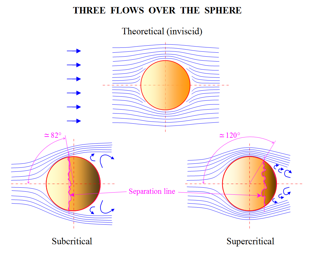 Three flows over the sphere : theoretical, subcritical and supercritical. For the last two regimes, the separation line is shown. The Reynolds Number at which the sudden change of flow occurs depends on turbidity of the fluid and roughness of the sphere.